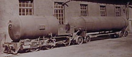 The image shows a pneumatic locomotive used in the construction of the Gotthard Rail Tunnel and other tunnels of the Gotthardbahn and an attached carriage with an additional pressure container. Energy was stored in the form of compressed air in the two pressure containers of the locomotive and the trailer. The released expanding air was used to operate the motor of the locomotive. Steam driven compressors were readily available and for example in use to drive pneumatic drills. Most probably these compressors were also used to load the pressure containers outside the tunnel. (The first DC motors were just being developed and the AC motor was patented by Tesla only in 1888.) In contrast to steam engines the pneumatic engines did not require additional ventilation of the tunnel during its construction. Even using pneumatic technology the tunnels were poorly ventilated during construction resulting in poor work conditions. The original is a photograph by Adolphe Braun published in a probably small edition book "Photographische Ansichten der Gotthardbahn" (58 photographs (28x23 cm2) mounted on each single page plus one two-page panorama), published around 1875 or shortly thereafter. The exact date of publication is not clear. The original in the book was photographed at an angle and the resulting image was clipped to show central detail and to reestablish a rectangular frame. The resulting image is somewhat distorted with respect to the original photograph by Adolphe Braun and very much reduced in resolution. The German caption of the photo in the book reads "Luftlokomotive" (literally: Air-Locomotive).